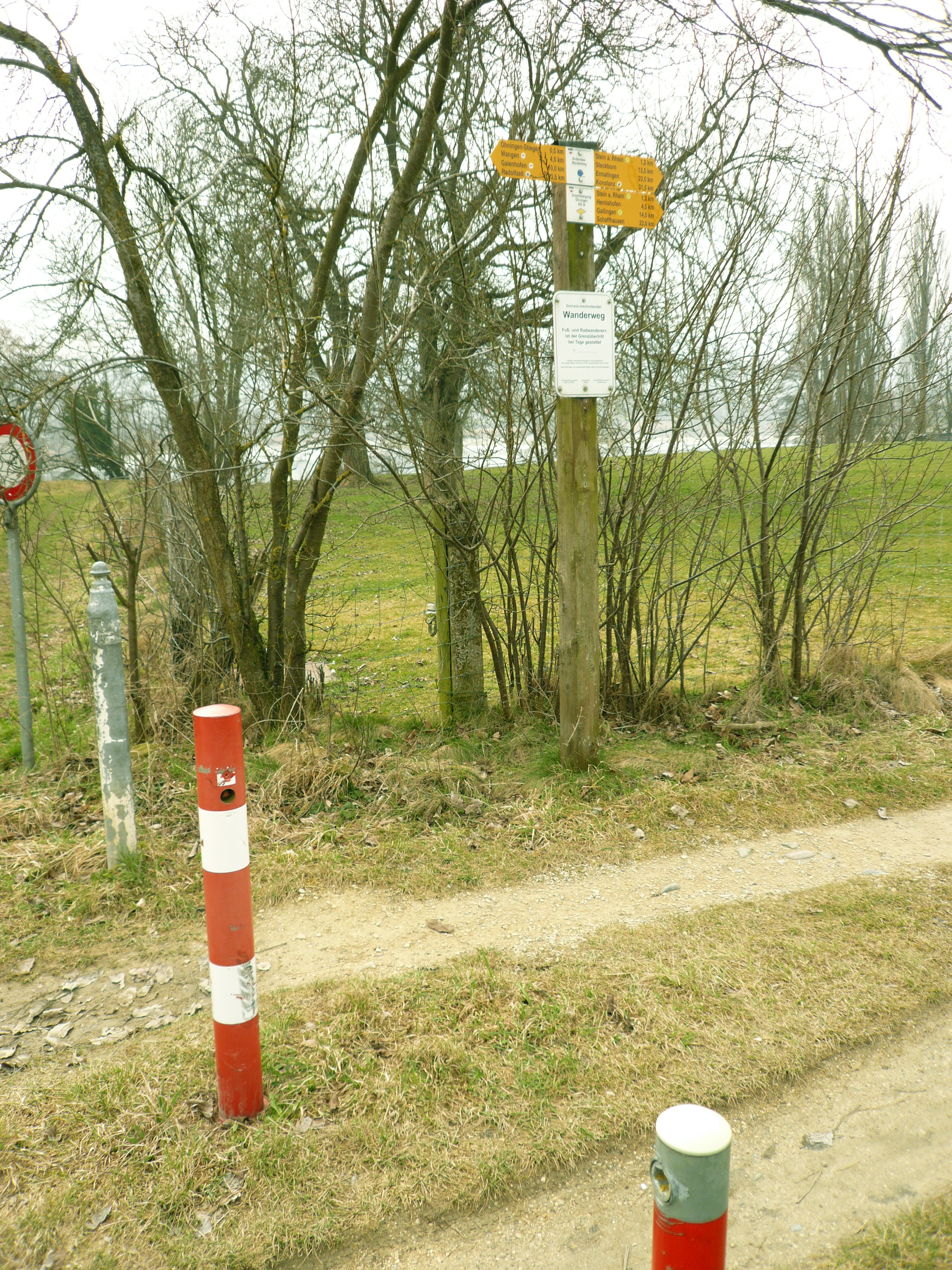 Hiking trail on the German-Swiss border